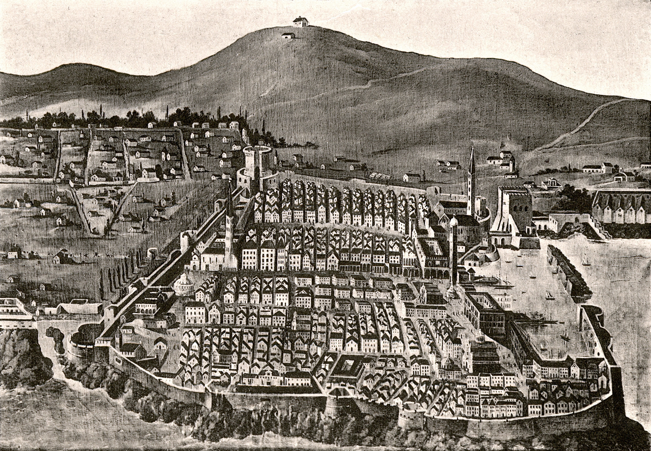 Denkmäler der Kunst in Dalmatien, Herausgegeben von Georg Kowalczyk, mit einer Einleitung von Cornelius Gurlitt. 132 Lichtdrucktafeln nach Naturaufnahmen des Herausgebers Georg Kowalczyk sowie nach Kupfern aus dem Werke von Robert Adam: RAGUSA,1667 (today's Dubrovnik) [not the Ruins of the Palace of the Emperor Diocletian at Spalat(r)o, 1764!] Wien, 1910, Verlag von Franz Malota Scanprojekt Bundesdenkmalamt Österreich This scan or this PDF-file was created within the Austrian Wikipedia-project Denkmalpflege Österreich (German only) supported by Wikimedia Germany and Wikimedia Austria as part of the Wikipedia community-project to collect public domain documents from the library of the Heritage Monuments Board of Austria. This document describes or depicts an object which is located in Croatia today. Texts are written in German language. Send requests for uncompressed scans to Hubertl. This work is in the public domain in its country of origin and other countries and areas where the copyright term is the author's life plus 100 years or less. You must also include a United States public domain tag to indicate why this work is in the public domain in the United States. This file has been identified as being free of known restrictions under copyright law, including all related and neighboring rights.